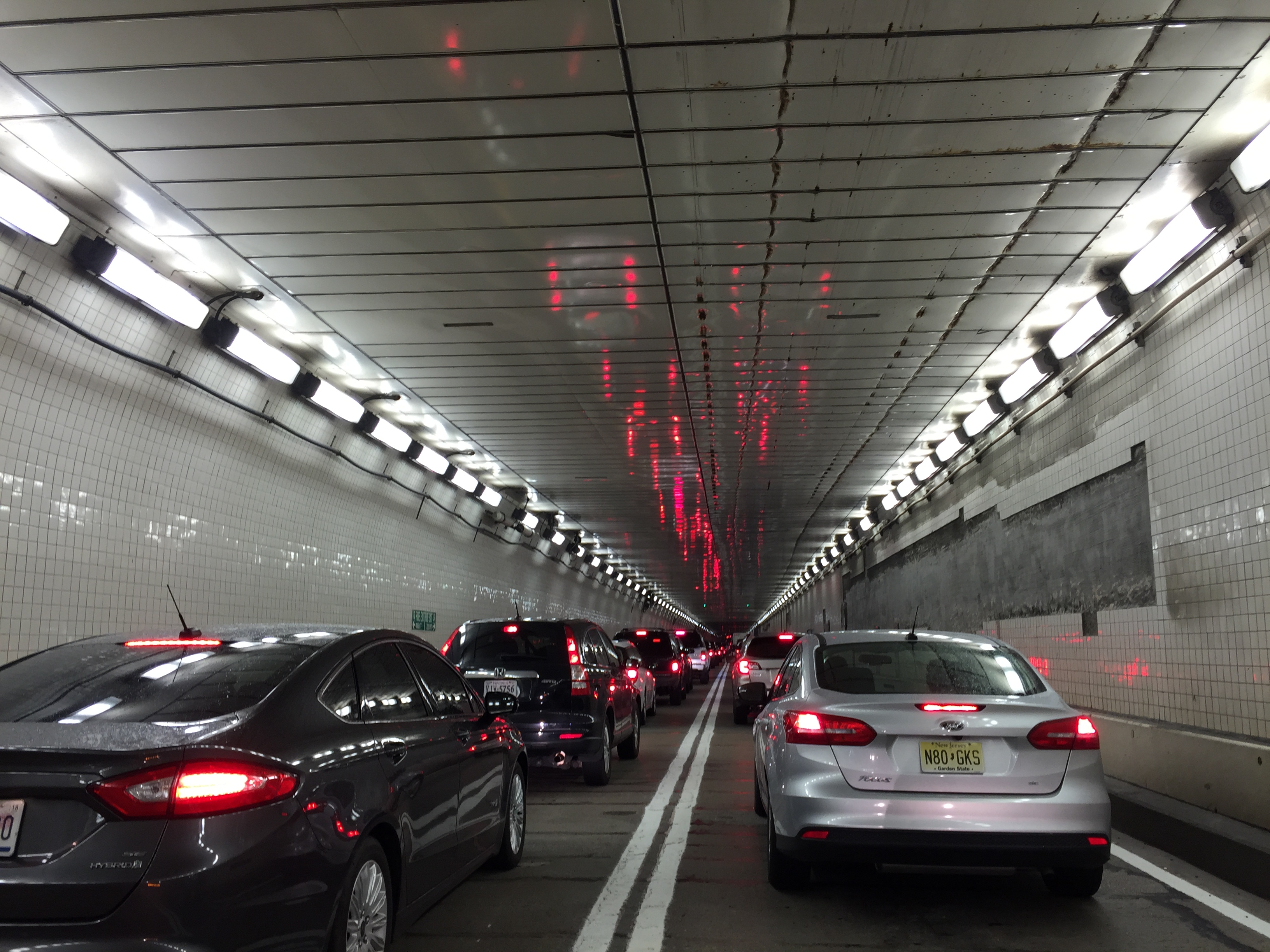 View north along Interstate 895 (Baltimore Harbor Tunnel) in Baltimore City, Maryland